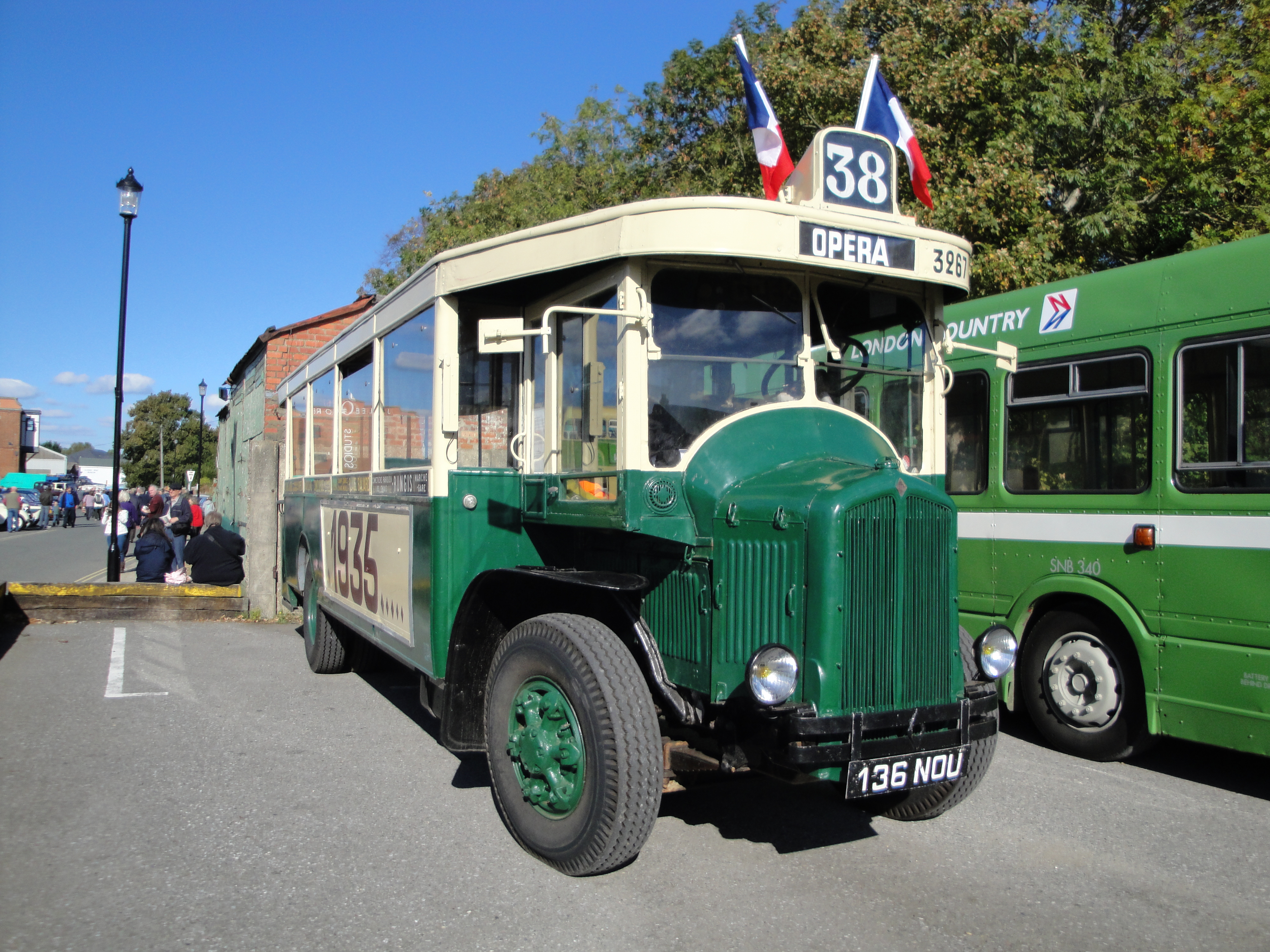 A Renault TN4F, (136 NOU), originally in service in Paris, seen in Newport Quay, Newport, Isle of Wight for the Isle of Wight Bus Museum's October 2010 running day.